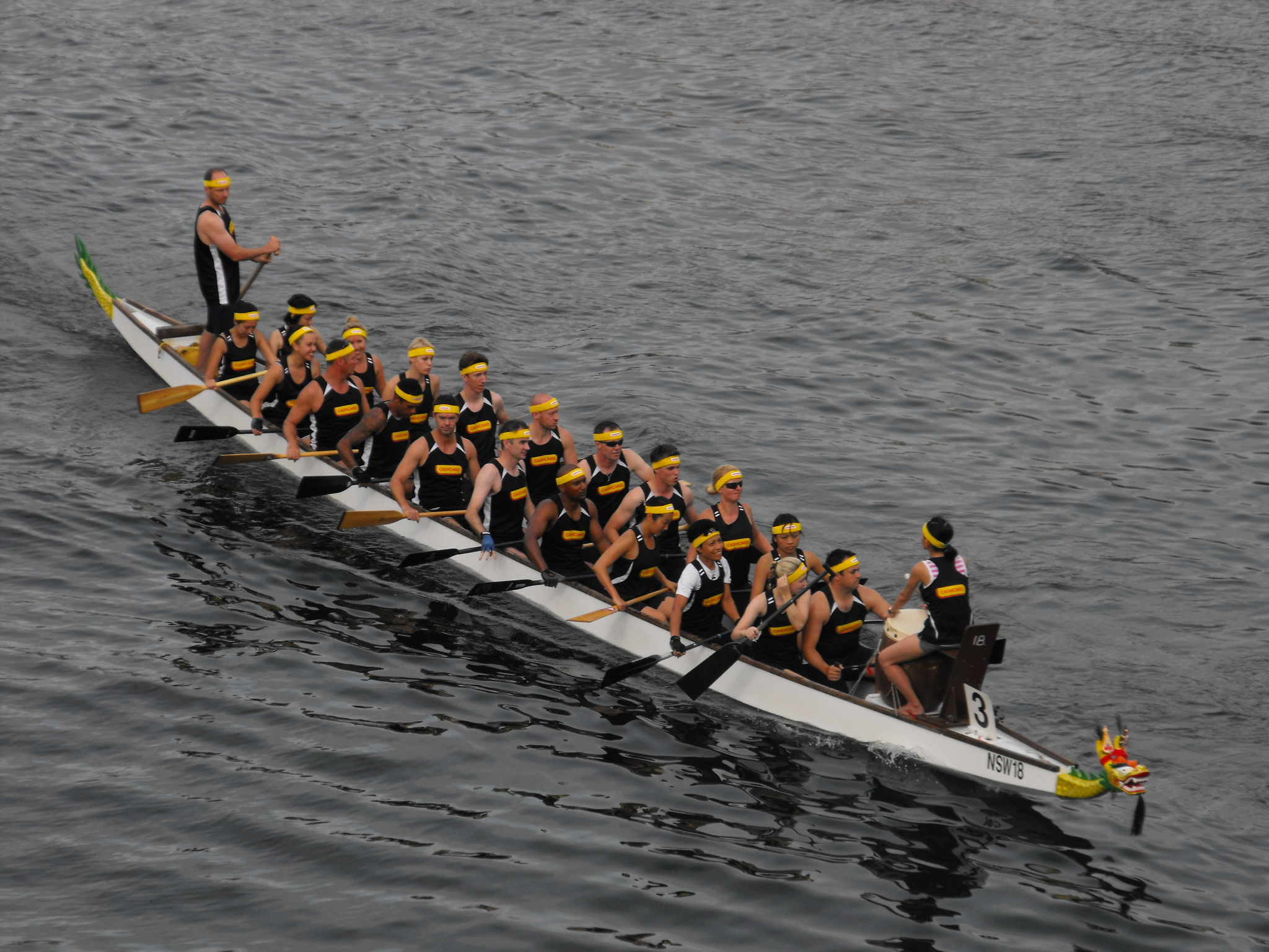 A dragon boat manoeuvering prior to a race in Darling Harbour, New South Wales